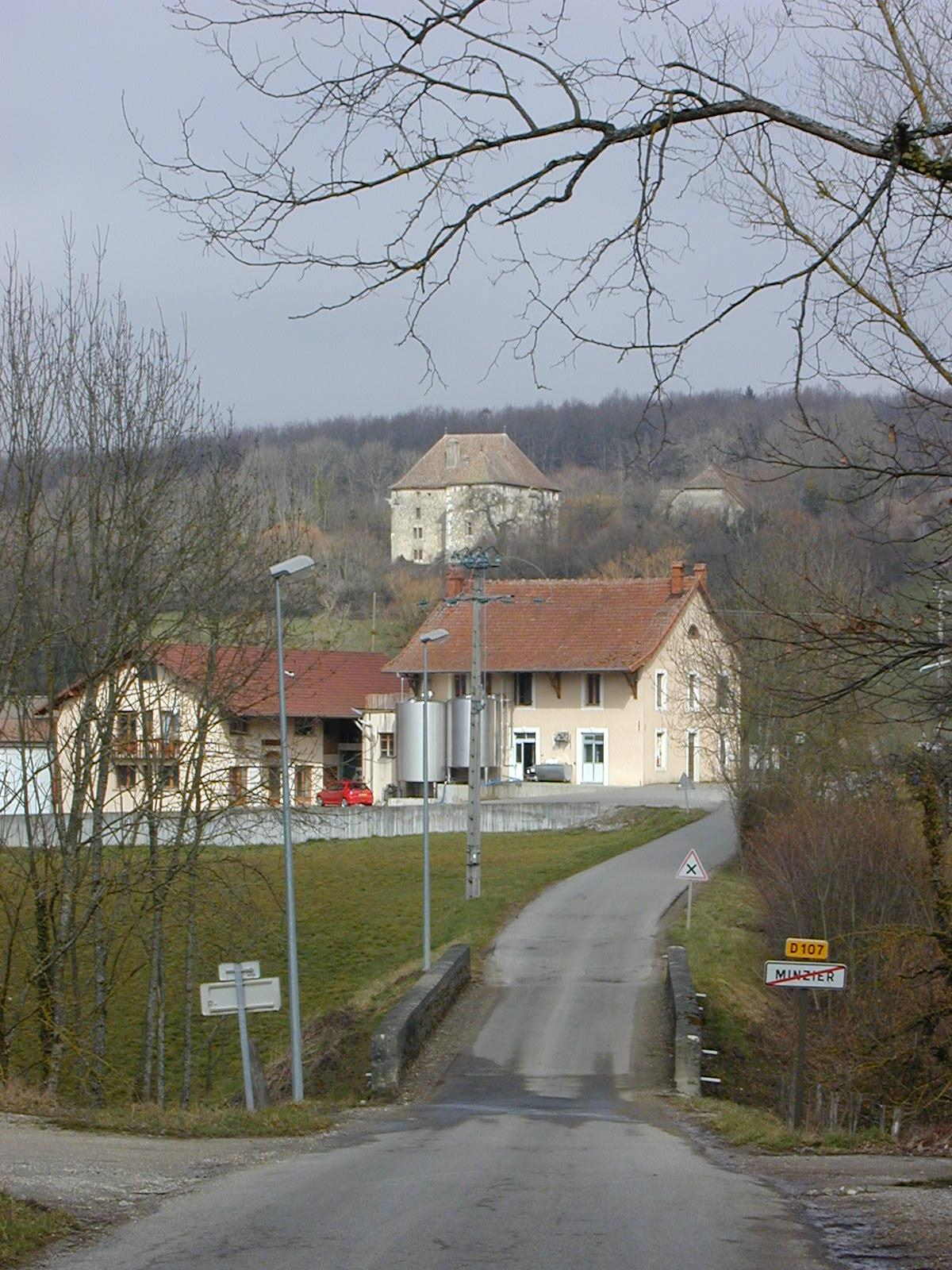 Village of Minzier, Haute-Savoie, France.